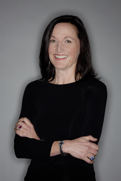 Profile photo of Margit Wennmachers, venture capitalist with Andreessen Horowitz